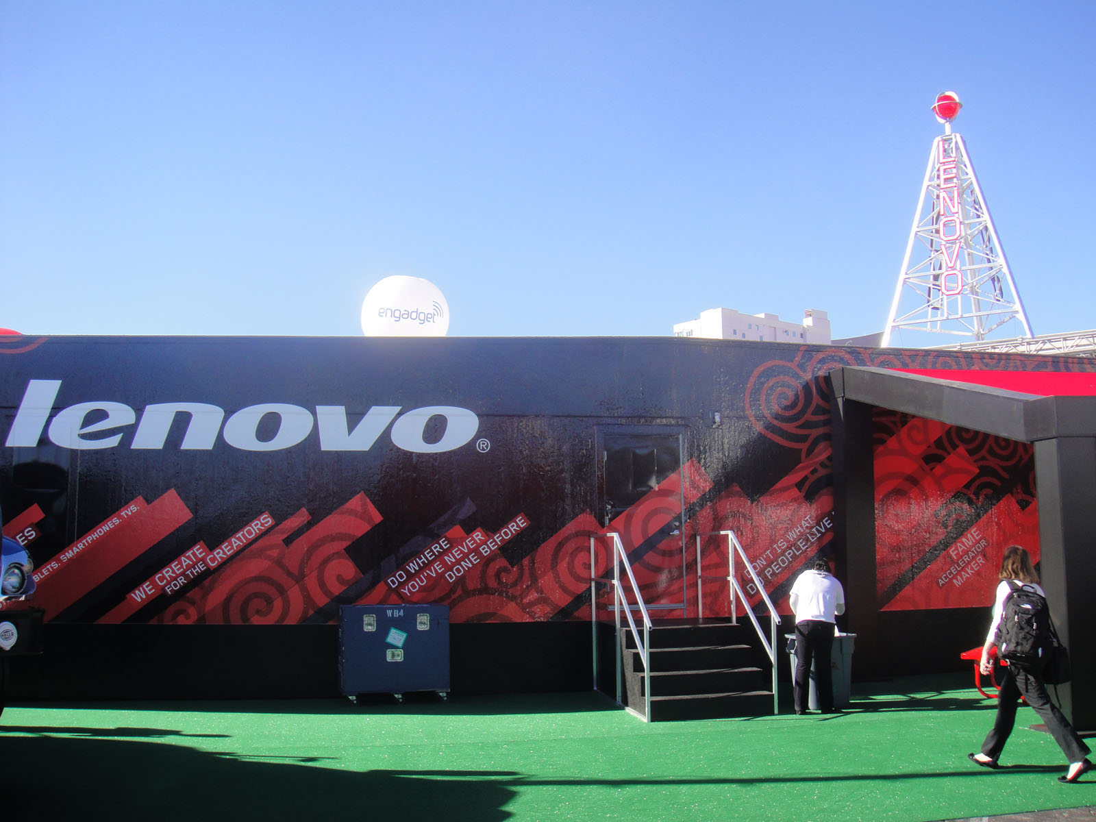 photo 2012 Pop Culture Geek taken by Doug Kline If you're interested in higher resolution versions of my images, contact me via my profile page.